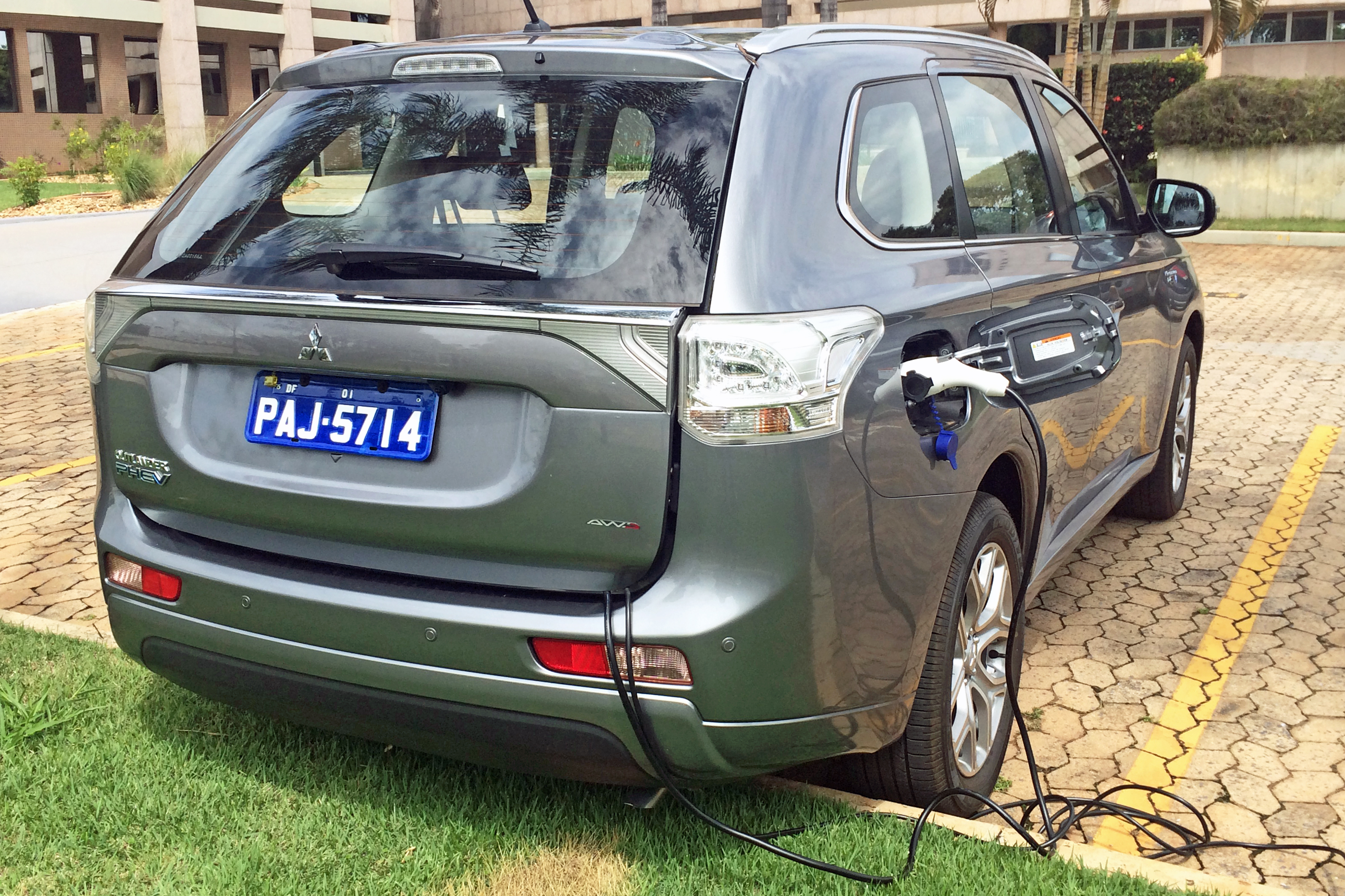 Mitsubishi Outlander P-HEV charging, Brasilia, Brazil